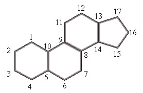 Structure of sterane, numbered